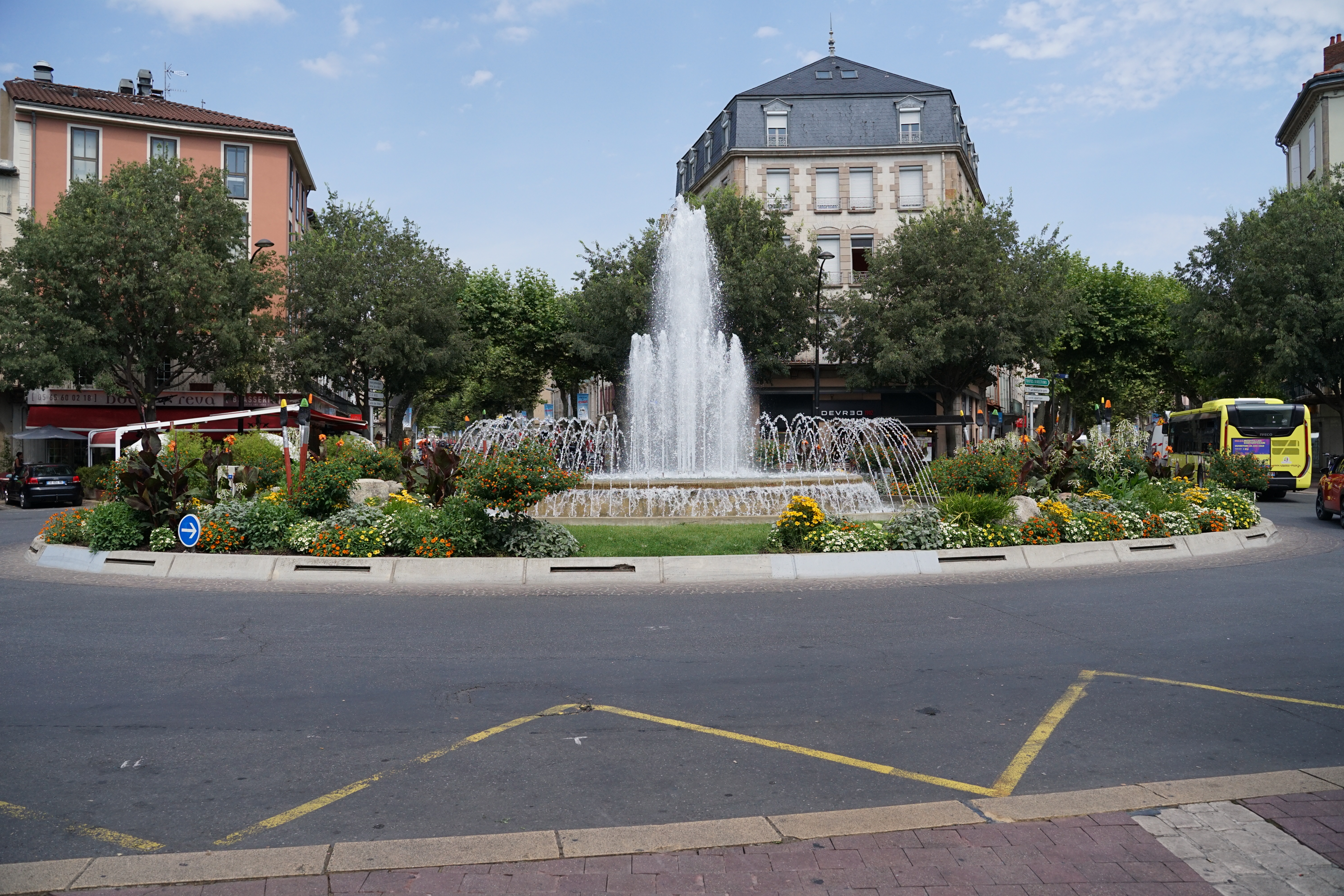 Fountain on the Place du Mandarous in Millau